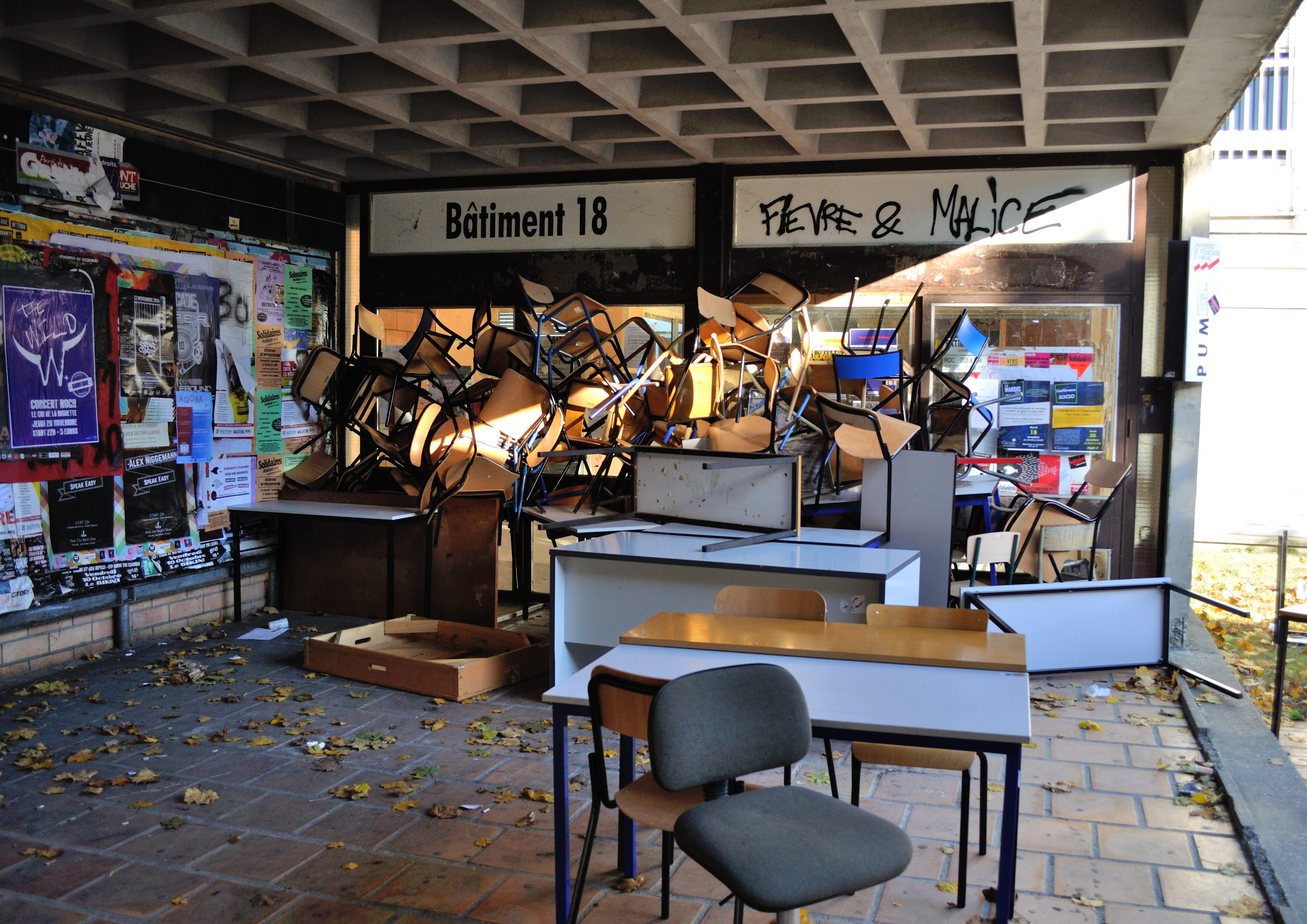 Building 18's blocked entrance.